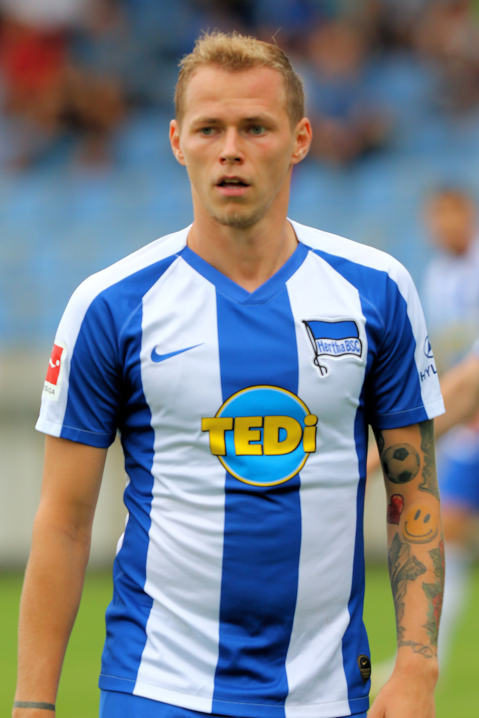 Friendly match Hertha BSC (blue-white shirts) vs. West Ham United (red-blue shirts) at 31-07-2019 3-5 (3-2) in the Sonnenseestadium in Ritzing. – The photo shows Ondrej Duda (Hertha BSC).